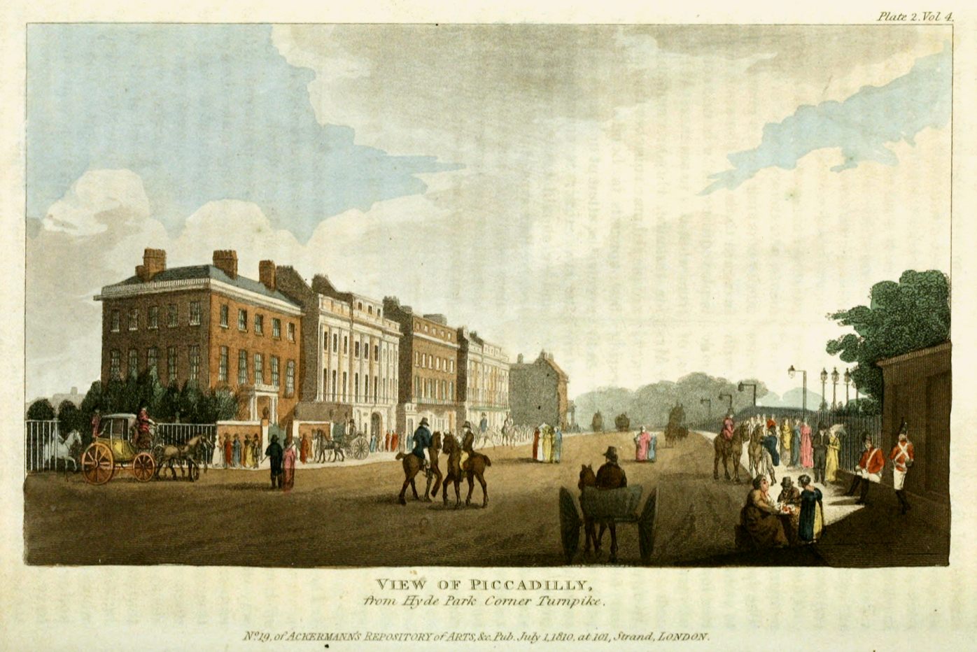 A view of Piccadilly from Hyde Park Corner in London, from Ackermann's Repository, 1810.